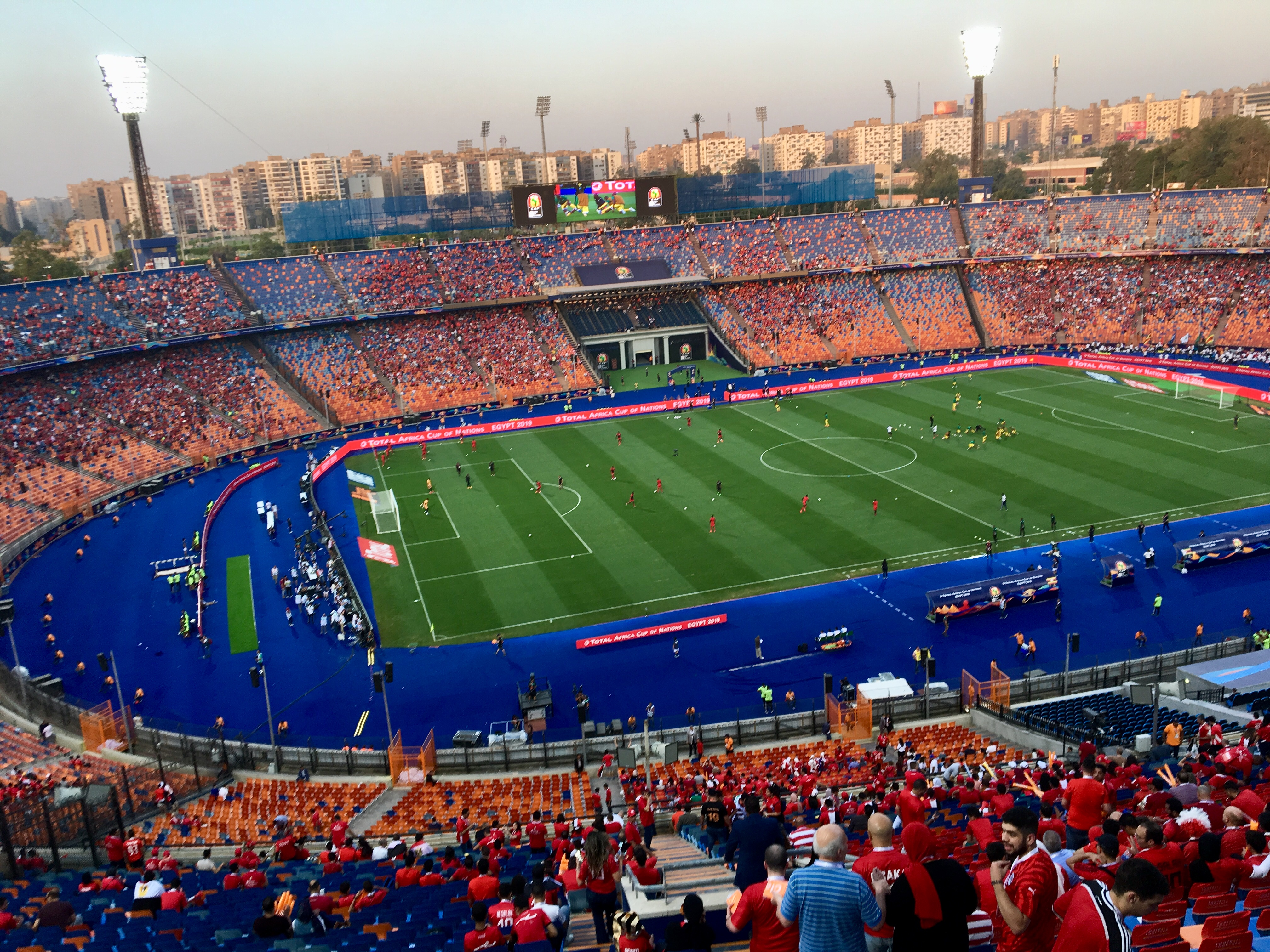 Depicted place: Cairo International Stadium